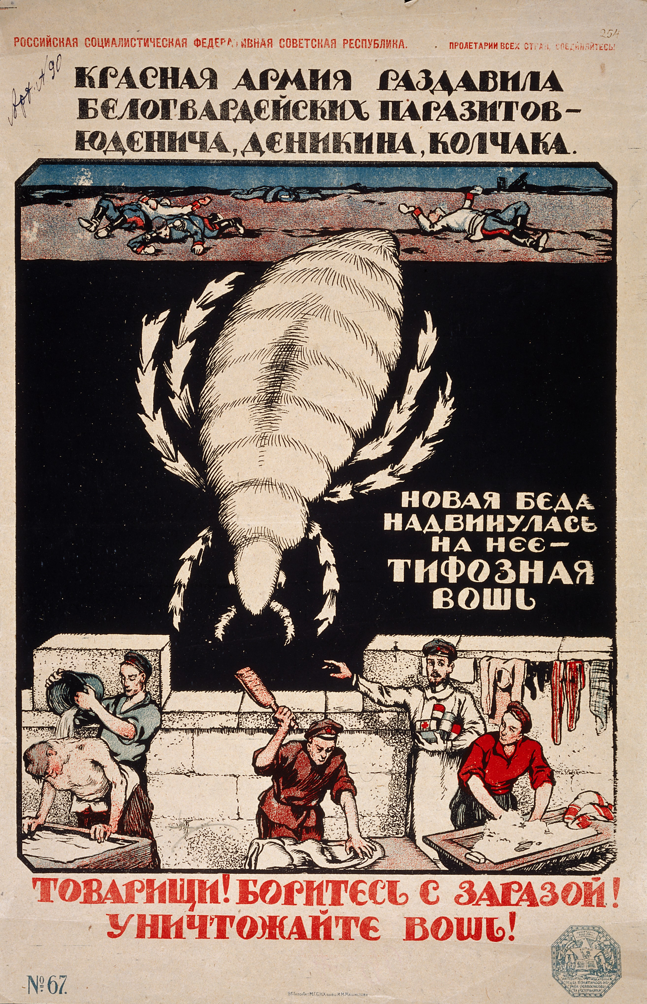 After the defeat of the White Army, a new white peril threatens in the form of the typhus louse, against which the Red soldiers fight by washing themselves and their clothes vigorously. Colour lithograph, ca. 1921. Iconographic Collections Keywords: Anton Ivanovich Denikin; diseases; POSTER; Aleksandr Vasiliyevich Kolchak; cat no. 545744i; Nikolay Nikolayevich Yudenich; Posters; ic